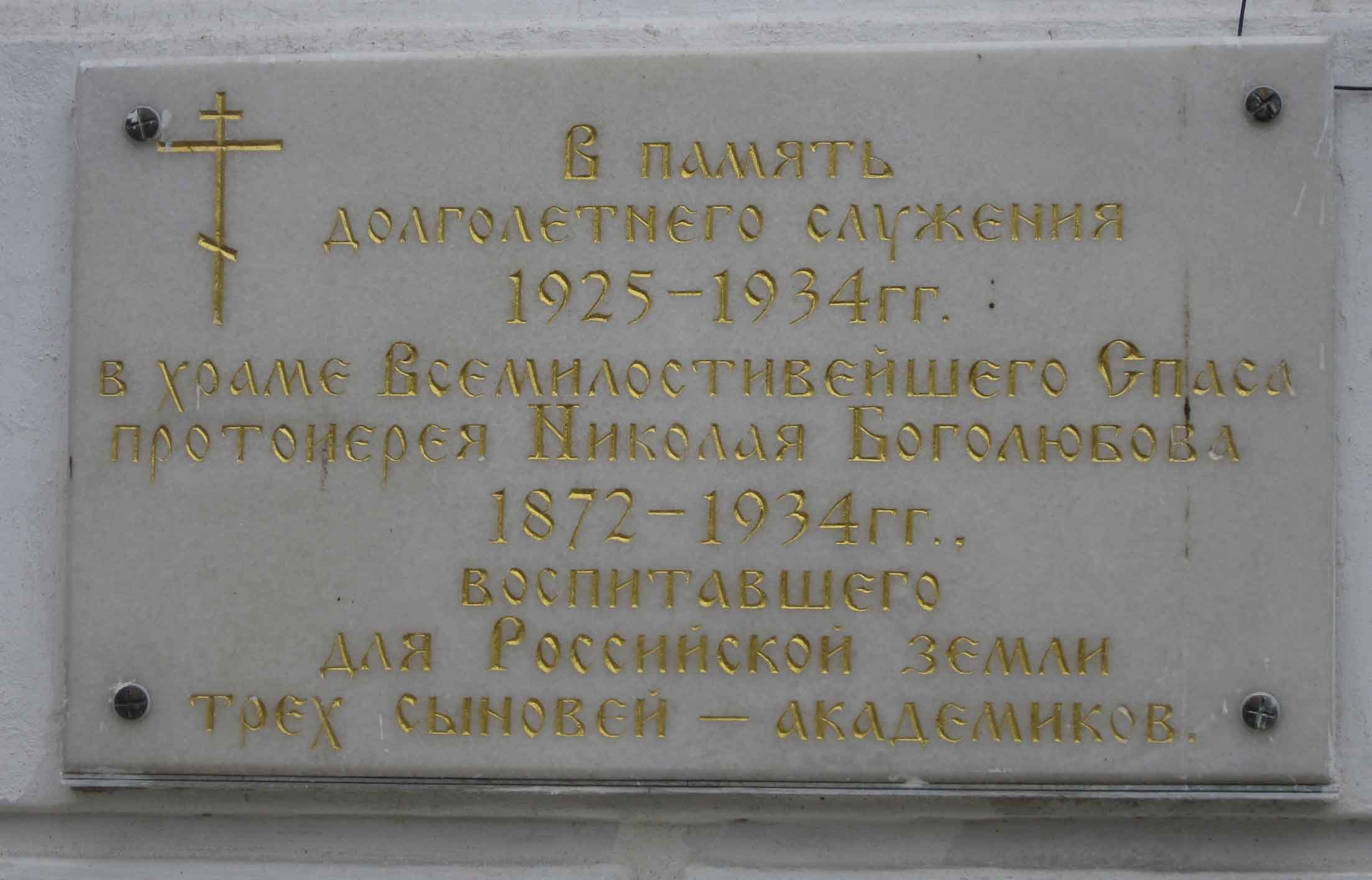 Church of Our Merciful Saviour, 177a Gorky St, Nizhny Novgorod.